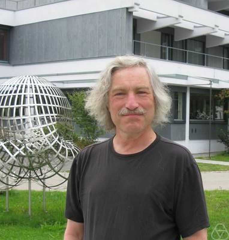 Jeffrey Hoffstein, Oberwolfach 2011